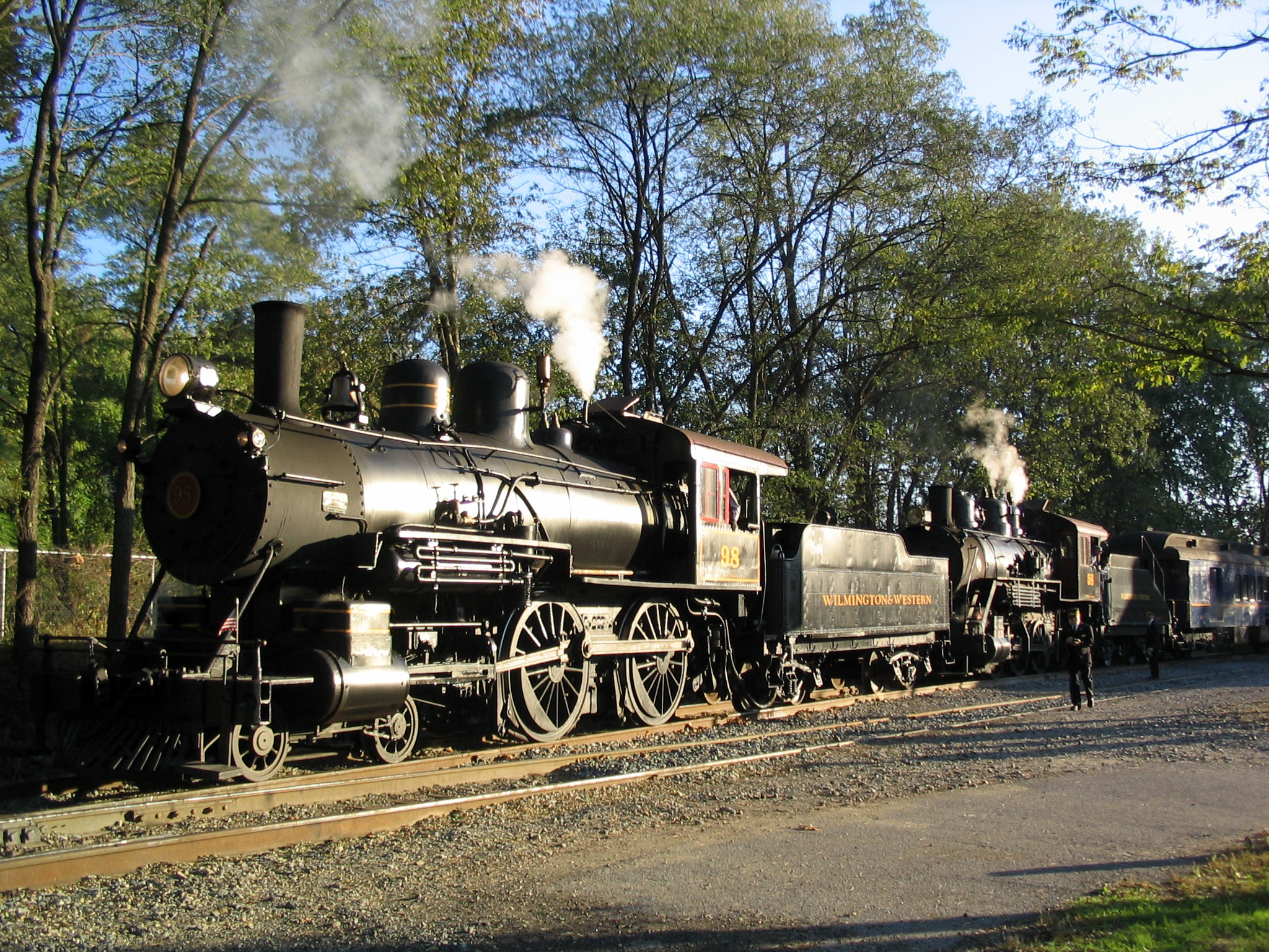 I took this photo as an employee of the railroad. Wilmington & Western No. 98 leads No. 58. No. 98 is an ex-Mississippi Central 4-4-0 built by Alco; No. 58 is an ex-AB&A 0-6-0 built by Baldwin.